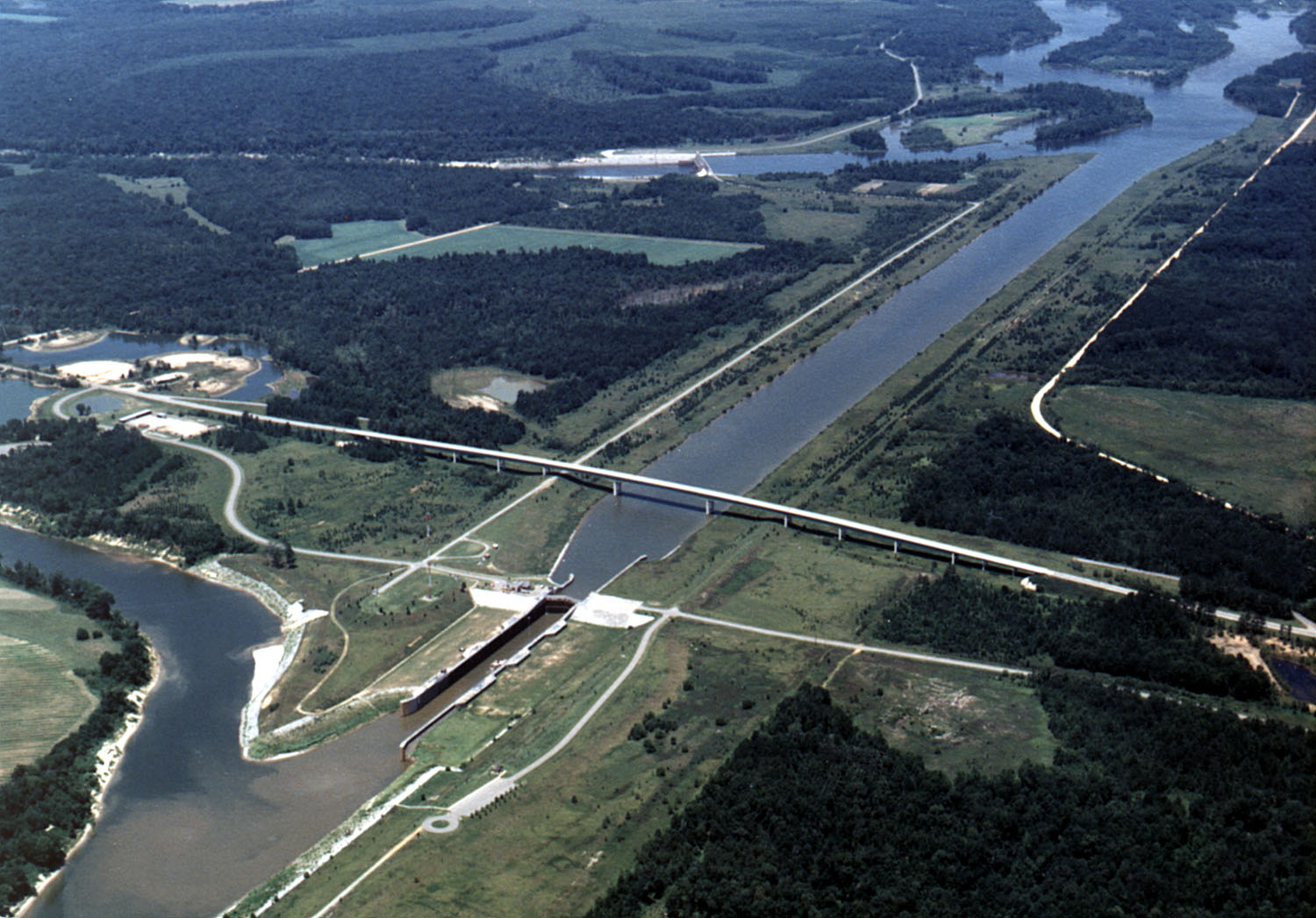 Aerial view of Howell Heflin Lock and Dam on the Tombigbee River, which is a part of the Tennessee-Tombigbee Waterway. The lock is located on a straightened and channelized section of the Waterway which bypasses a loop in the river. The associated dam (visible at top center) is actually located nearly two miles away on the original meandering path of the river. The lock and dam are part of the Tennessee-Tombigbee project, constructed by the U.S. Army Corps of Engineers for barge navigation from the Tennessee River to the Gulf of Mexico. The lock is located in Greene County, Alabama, near the town of Gainesville. The river here is the border between Greene County and Sumter County, and the dam spans the border between the two counties. Howell Heflin Lock is the lowest (farthest downriver) lock on the Tennessee-Tombigbee Waterway. View is upriver to the northwest. Coordinates: 32°50′12.86″N 88°8′8.73″W / 32.8369056°N 88.1357583°W